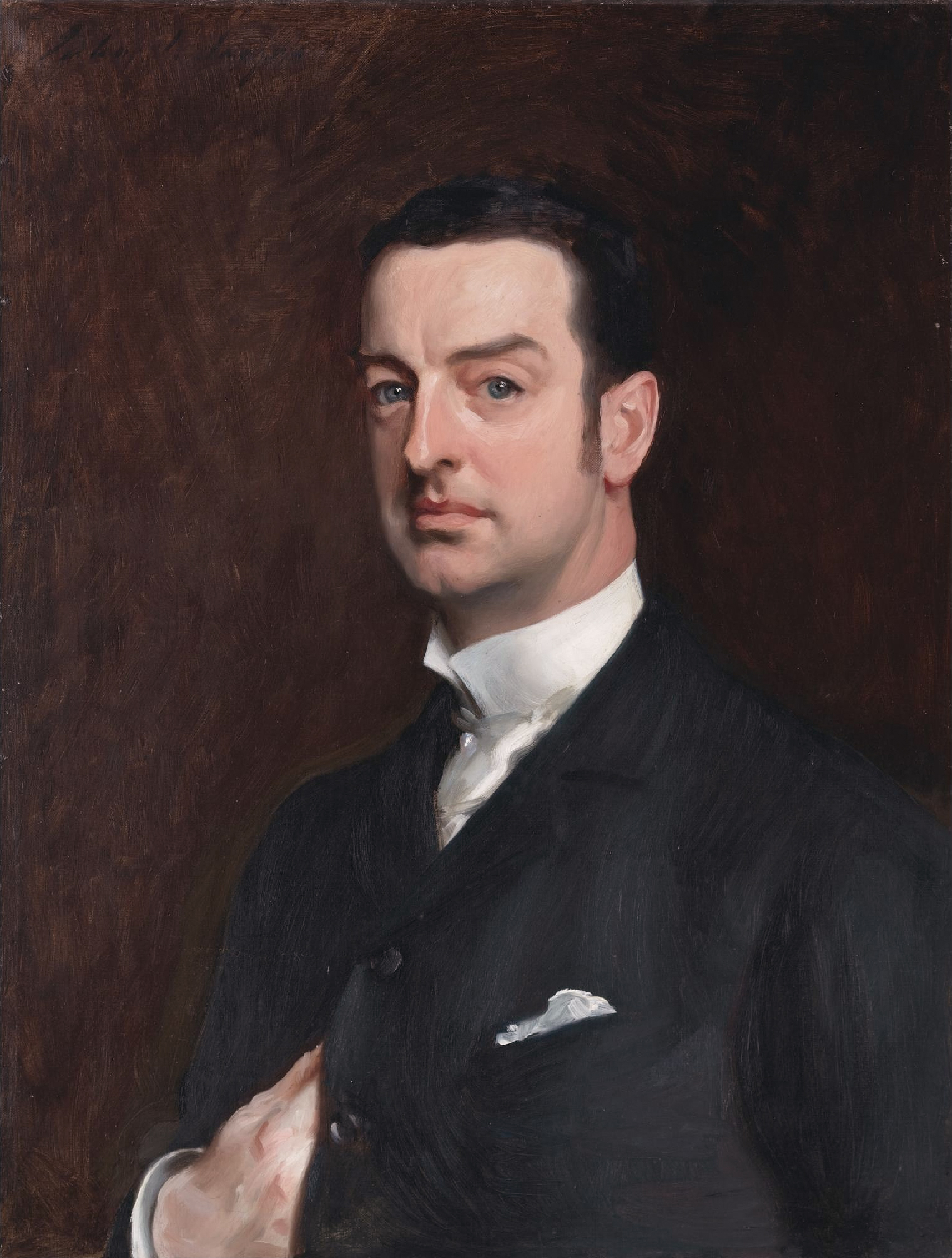 Cornelius Vanderbilt II oil on canvas 76.2 x 58.4 cm signed u.l.: John S. Sargent dated u.r. 1890